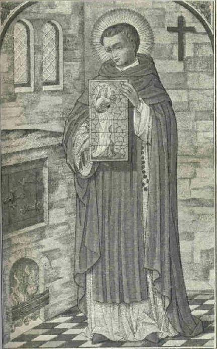 Devotional print with blessed James of Ulm